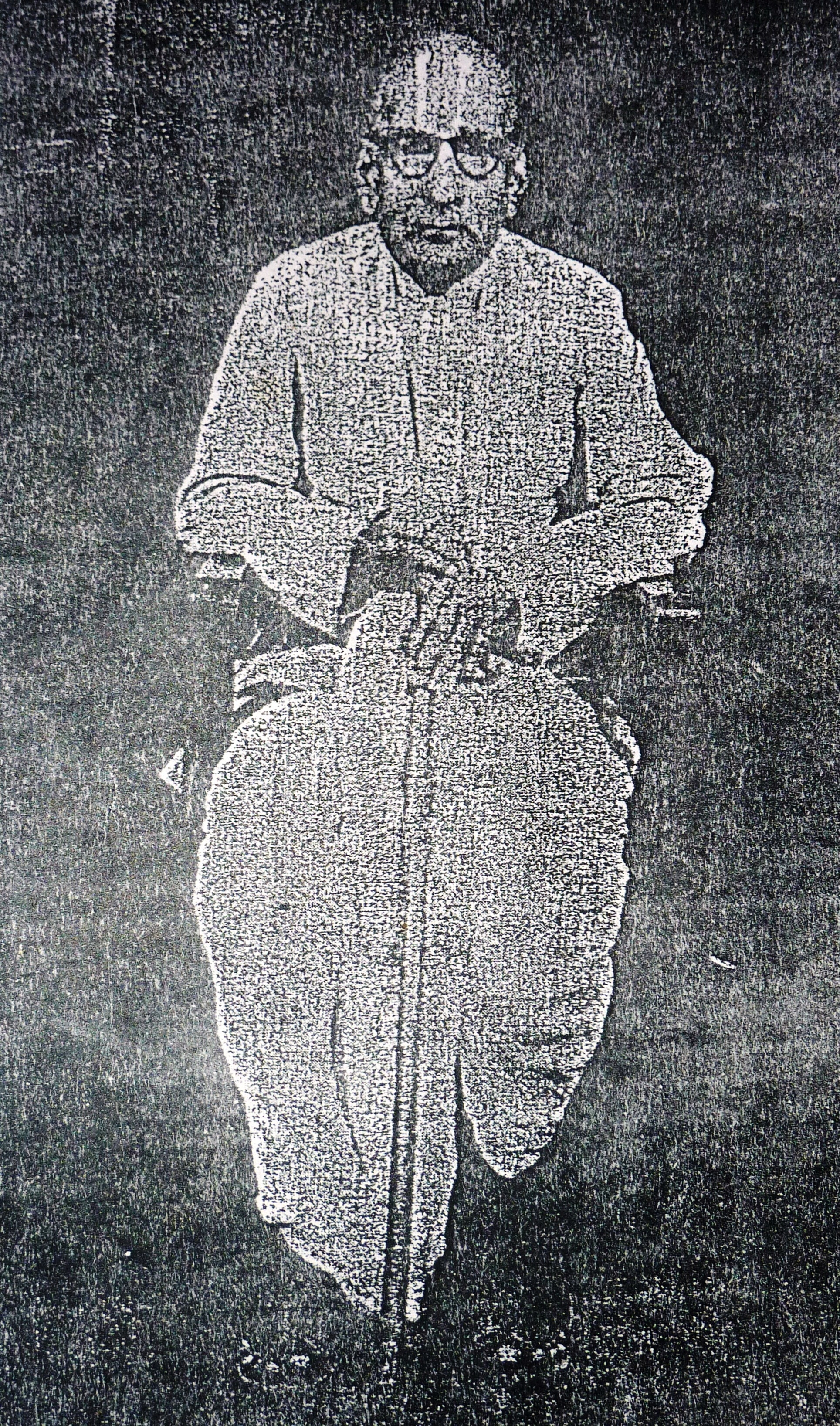 Tamil scholar Mu Raghava Iyengar's old photo